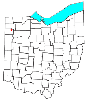 Locator map of the unincorporated community of Junction in Paulding County, Ohio, United States.